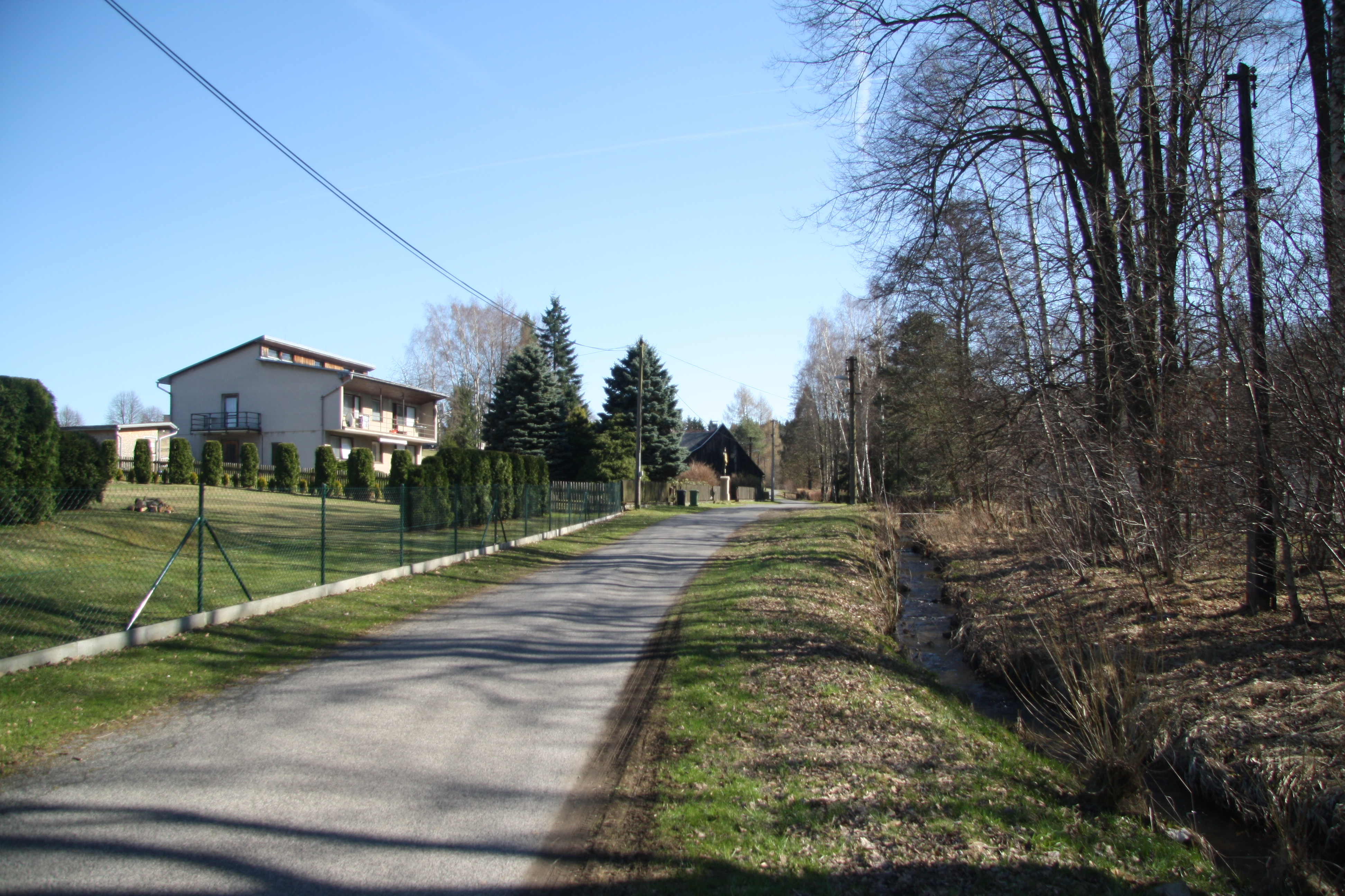 Center of Leopoldka, Velký Šenov, Děčín District.